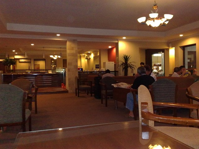 One of the private lounge